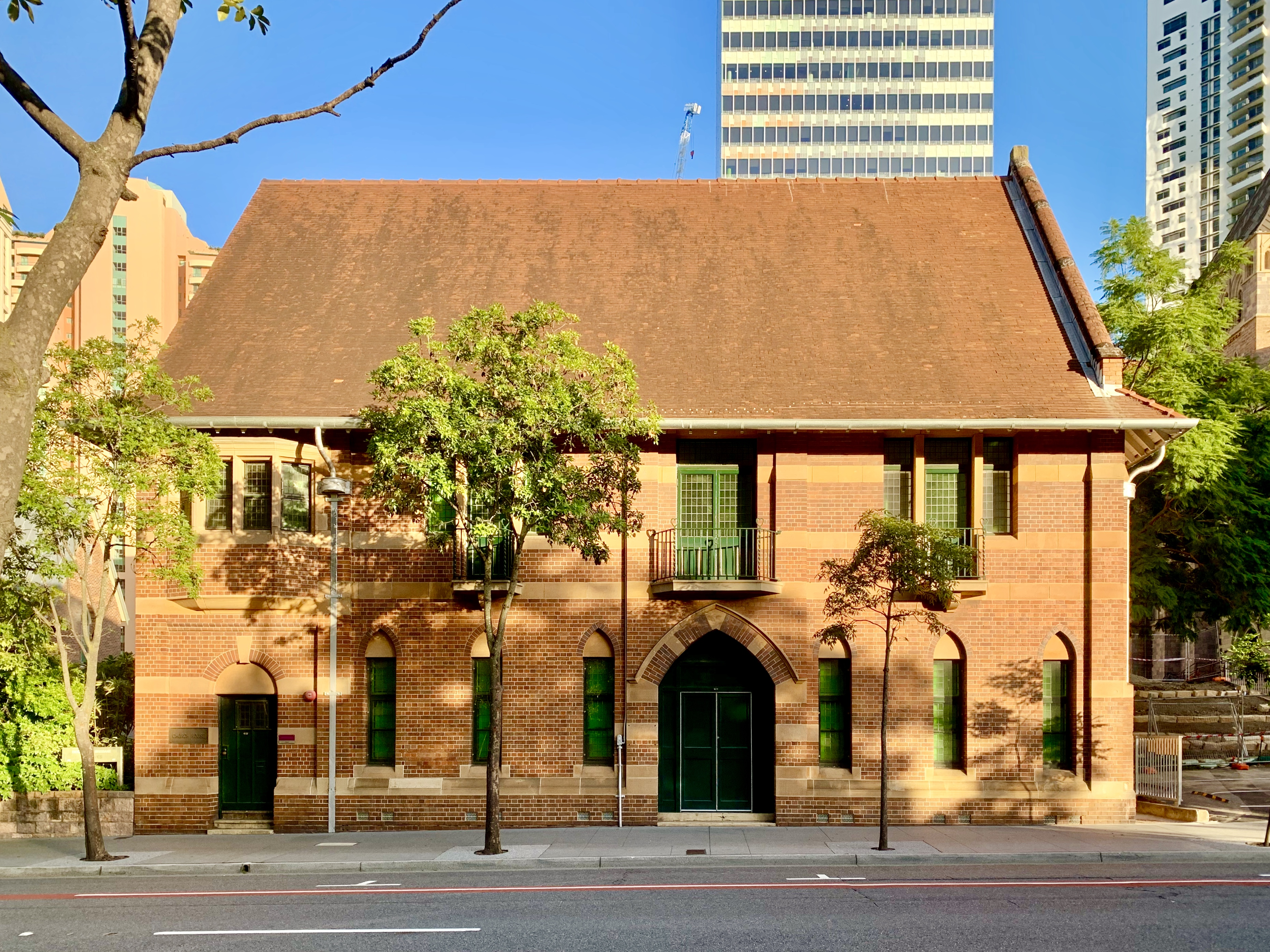 Church House, Brisbane, Queensland 2020